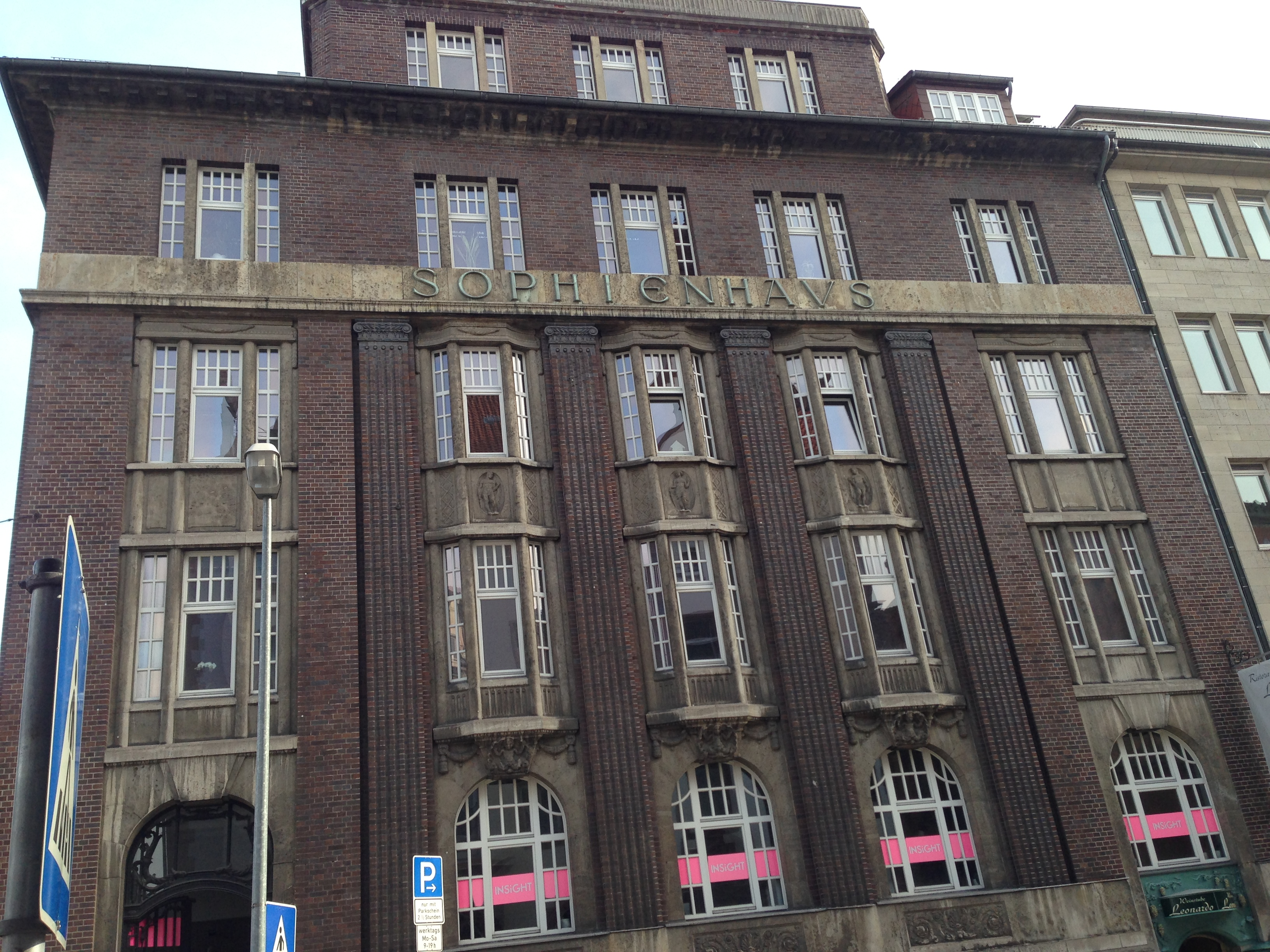 Sophienstraße 6 (Hannover)